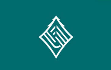 Flag of Umaji Kochi